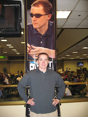 Joe Pelton standing in front of his poster at the Bicycle Casino in Los Angeles, CA